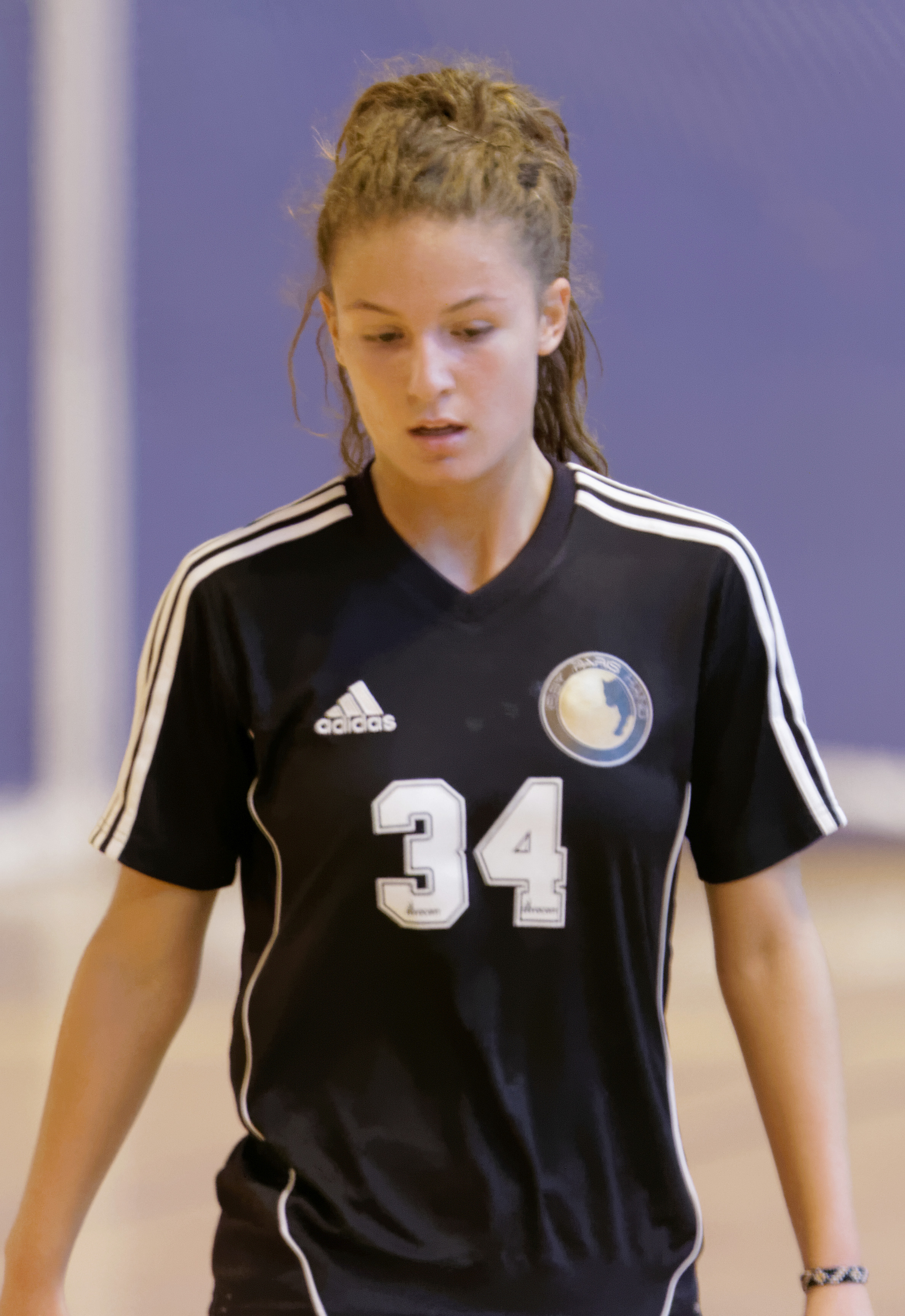 Issy Paris Hand - South Korea, 12 August 2014